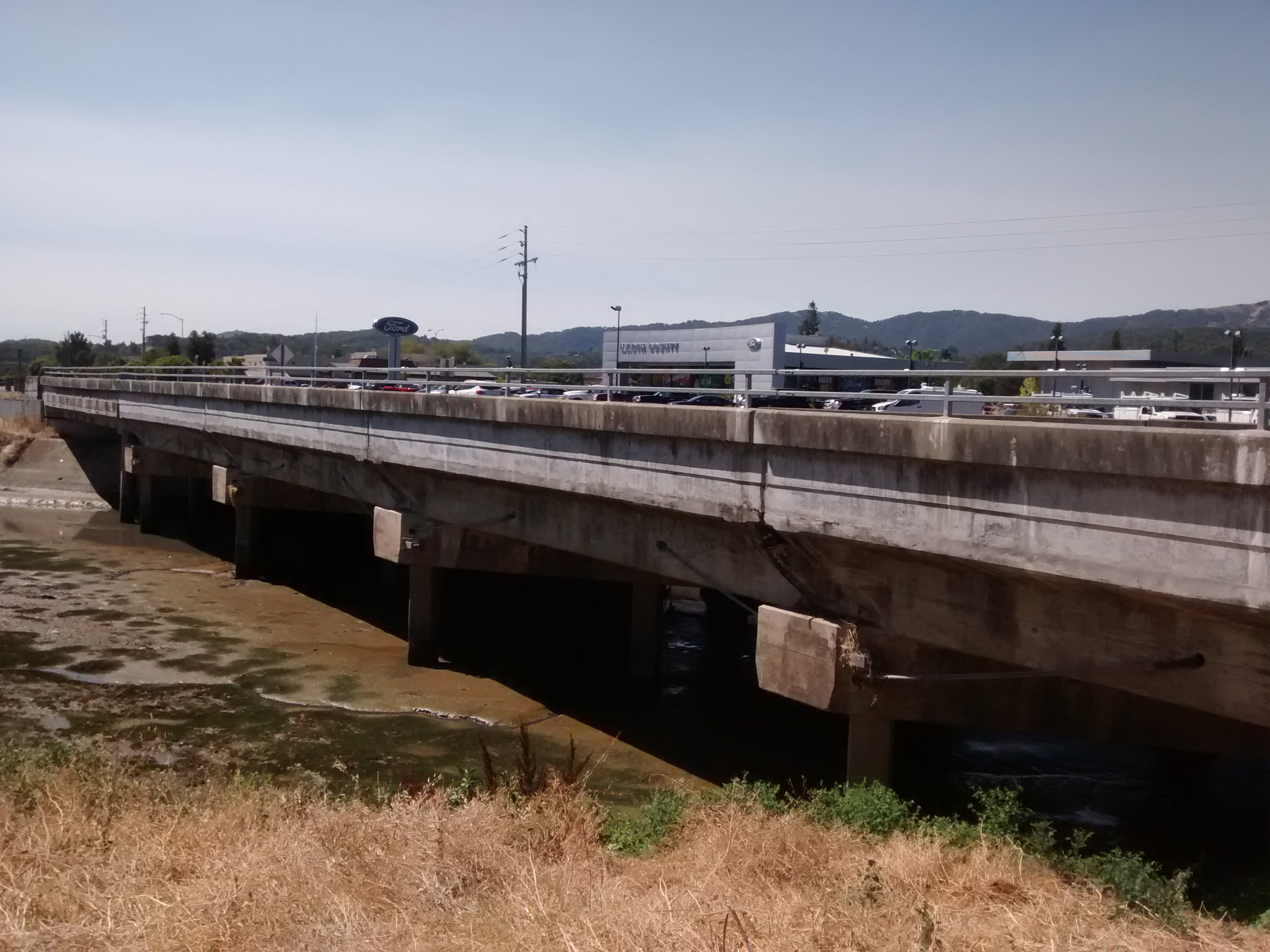 A bridge over Novato Creek in Novato, Marin County, California.